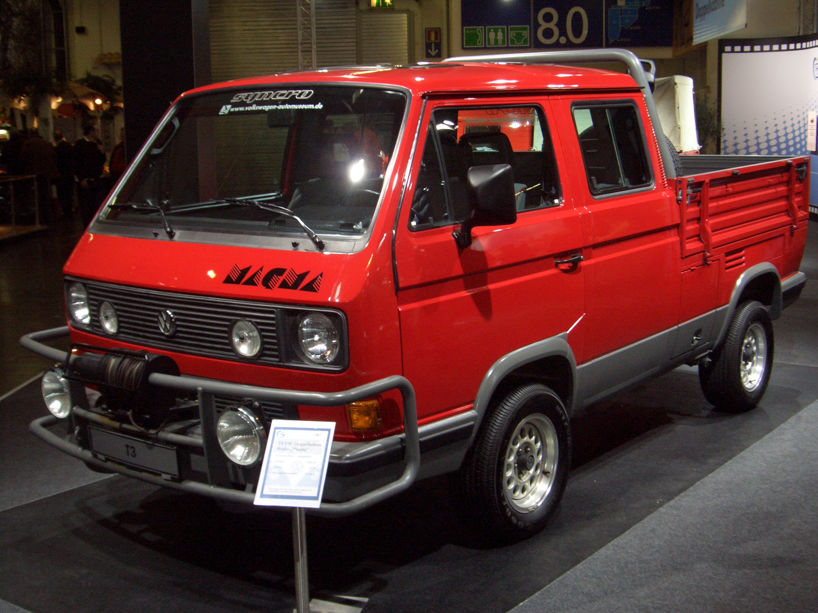 VW Typ 2 (Bus) T3 DoKa (Double Cab) Syncro (AWD) Pritsche (Pickup) MAGMA, concept car, 1987, seen at TECHNO CLASSICA in Essen, Germany